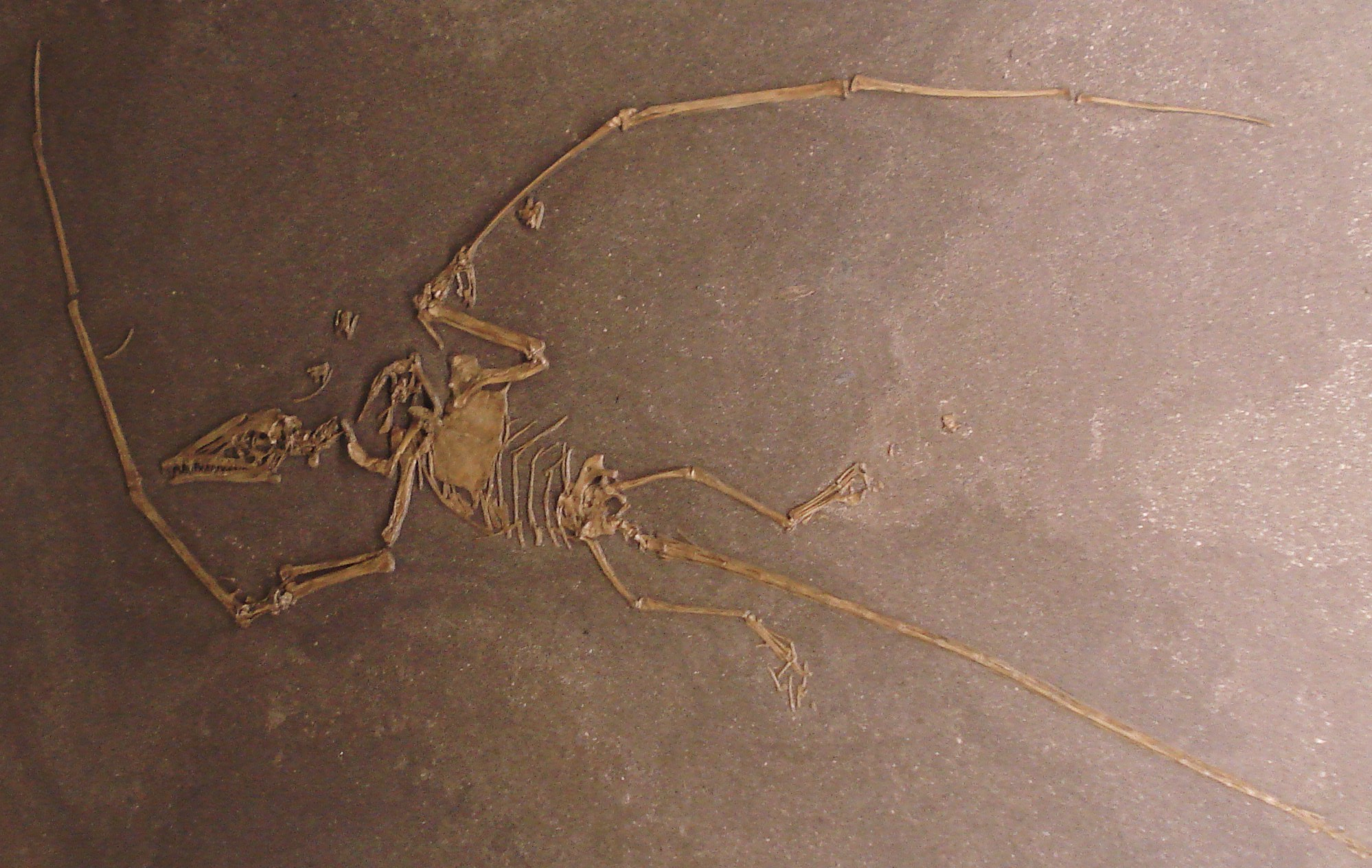 fossil of campylognathoides